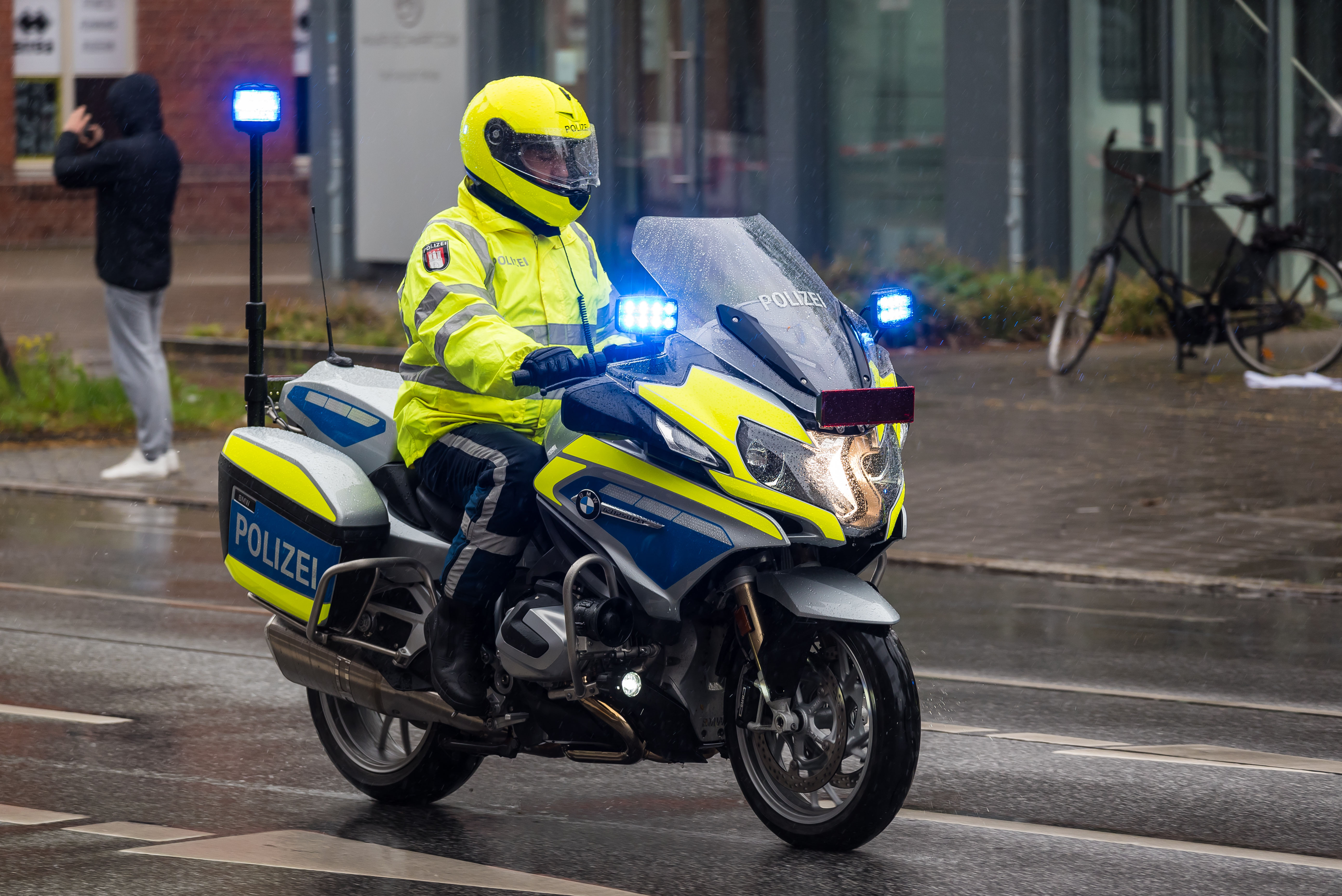 A BMW model R 1250 RT motorcycle of the Hamburg Police at Hamburg Marathon 2019.